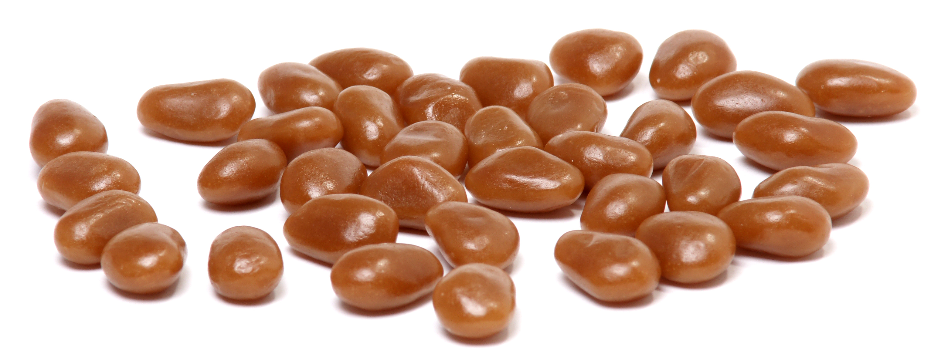 These are Sugar Babies, a caramel candy made by Tootsie Roll.